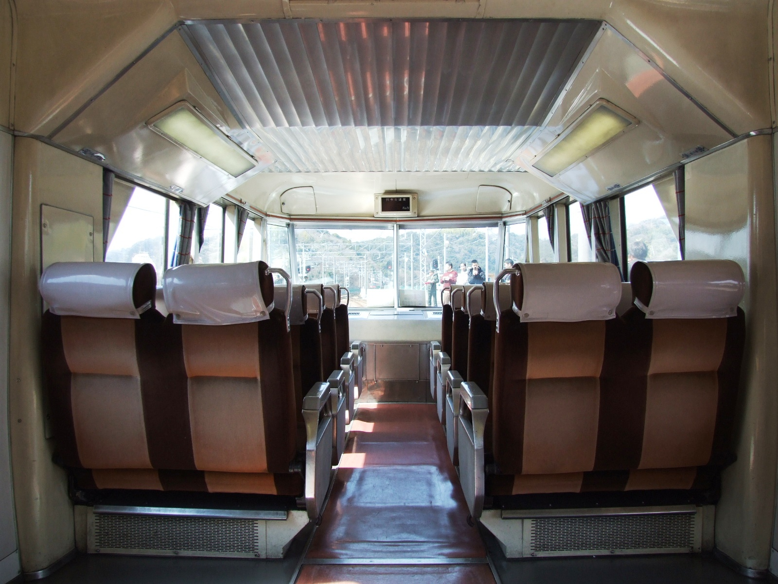 Observation Seat of Series 7000-7011F-,Nagoya Railroad,Japan